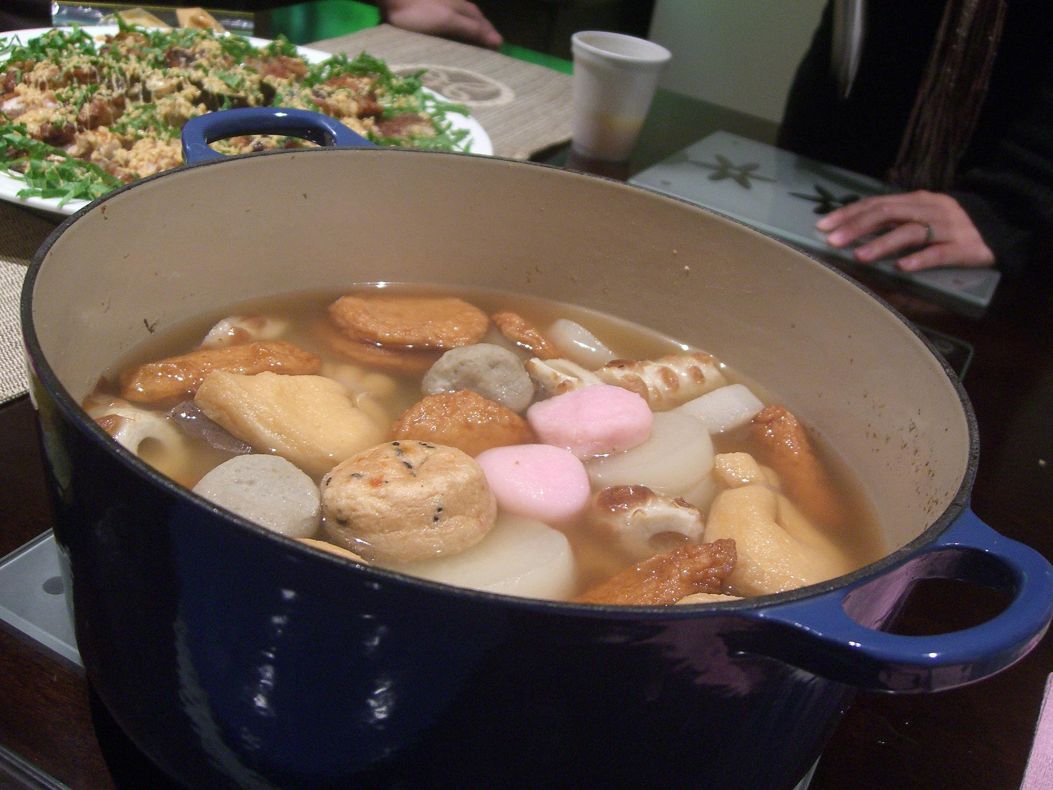 Nice pot too :) --- Isabel and Andrew's Japanese-themed party.